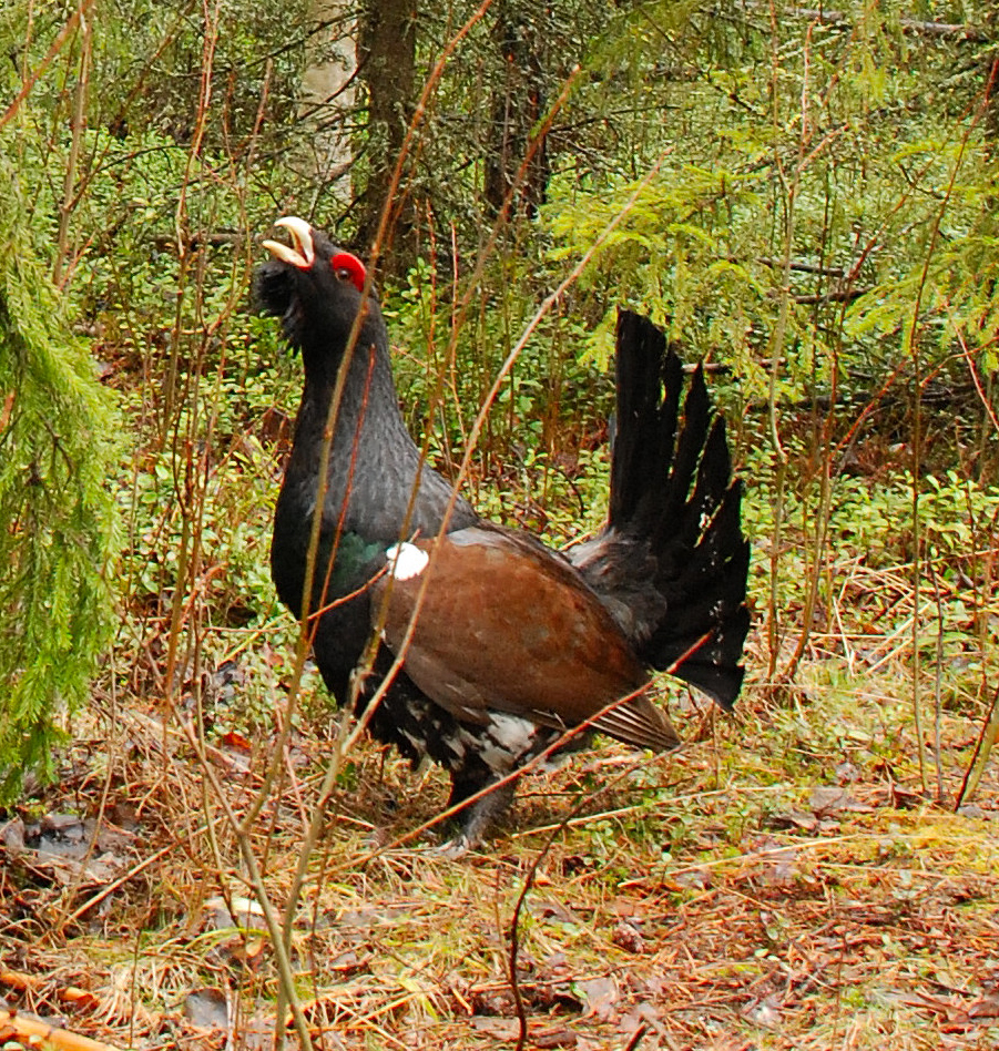 Male Capercaillie displaying in a Finnish taiga forest.